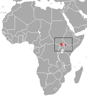 Hamilton's Tomb Bat (Taphozous hamiltoni) range